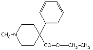 Meperidine (also known as Pethidine or Demerol)